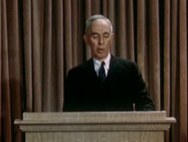 Company president Leroy A. Lincoln presents a report on the business operations of the Metropolitan Life Insurance Company (now known as MetLife). Taken from the 00:54 mark of the movie.